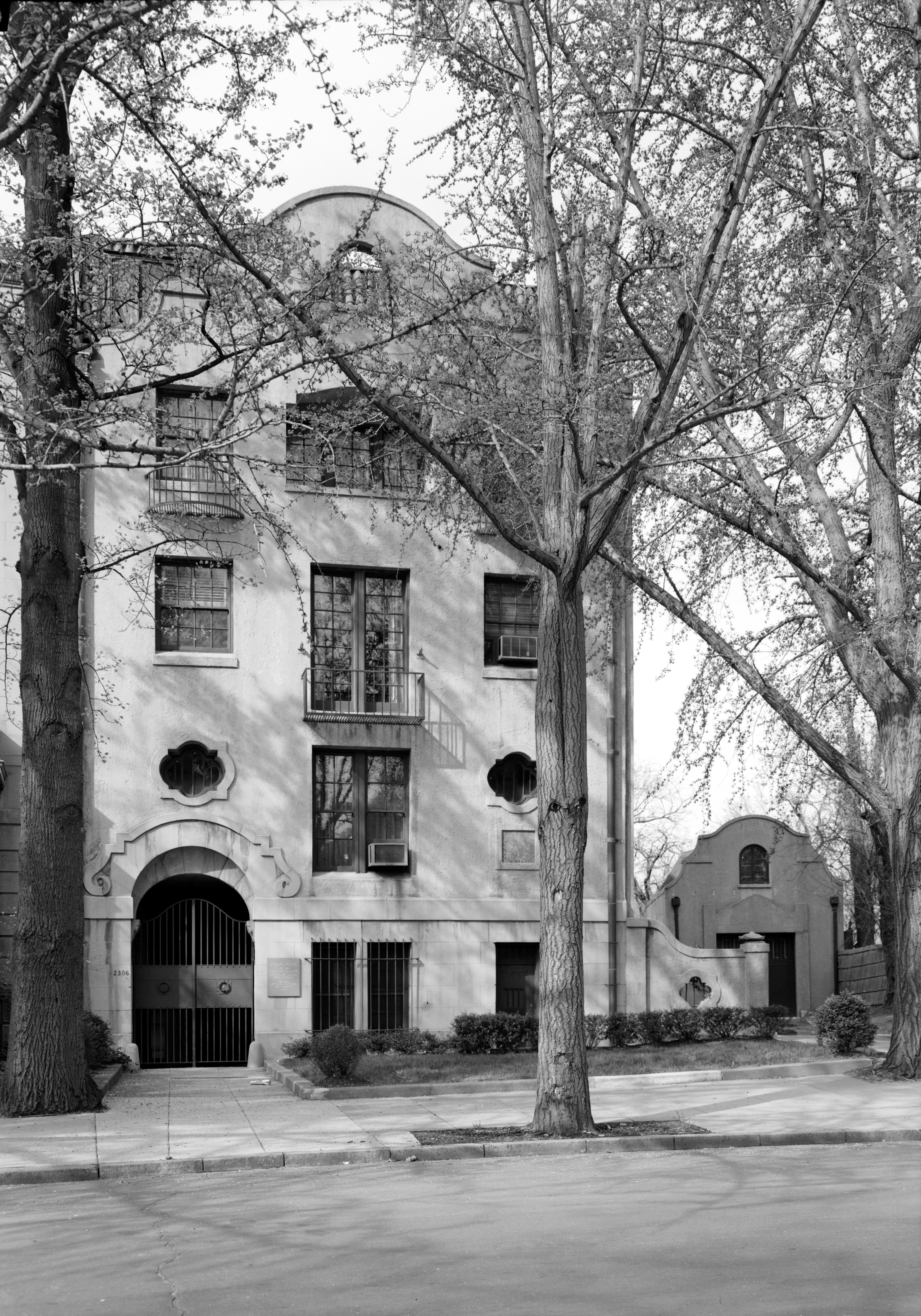 Alice Pike Barney Studio House, Washington, D.C.